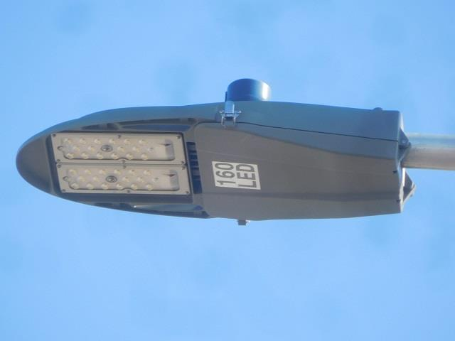 History of street lighting: E-lite , Star SL3S 160w variant.